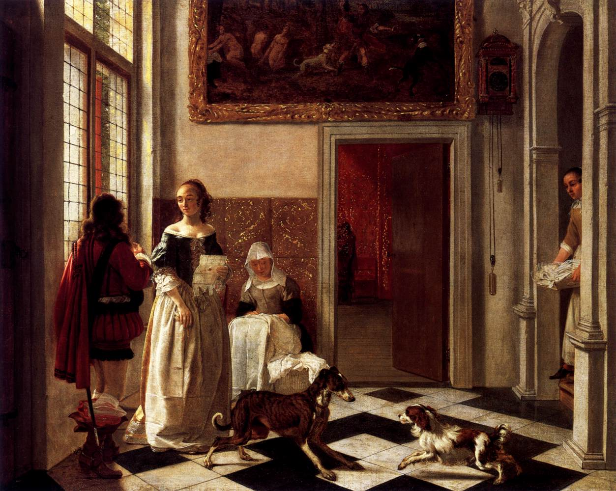 This image is available from the Netherlands Institute for Art Historyunder digital ID 256486. This tag does not indicate the copyright status of the attached work. A normal copyright tag is still required. See Commons:Licensing.